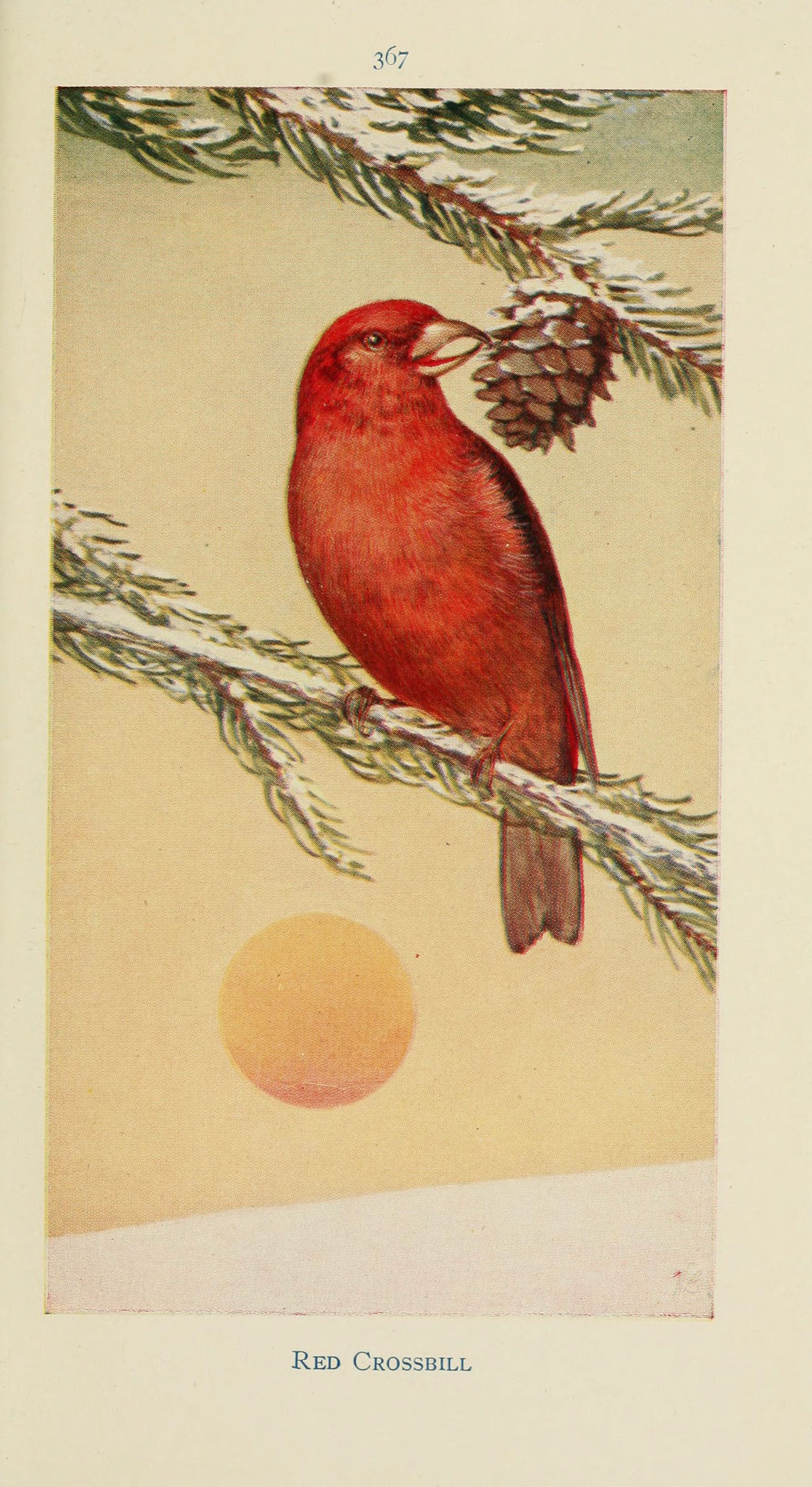 367 . Red Crossbill